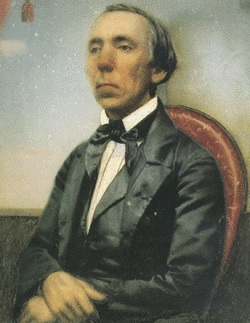 Daguerreotype of artist Erastus Salisbury Field, colored by the artist, 1840s.